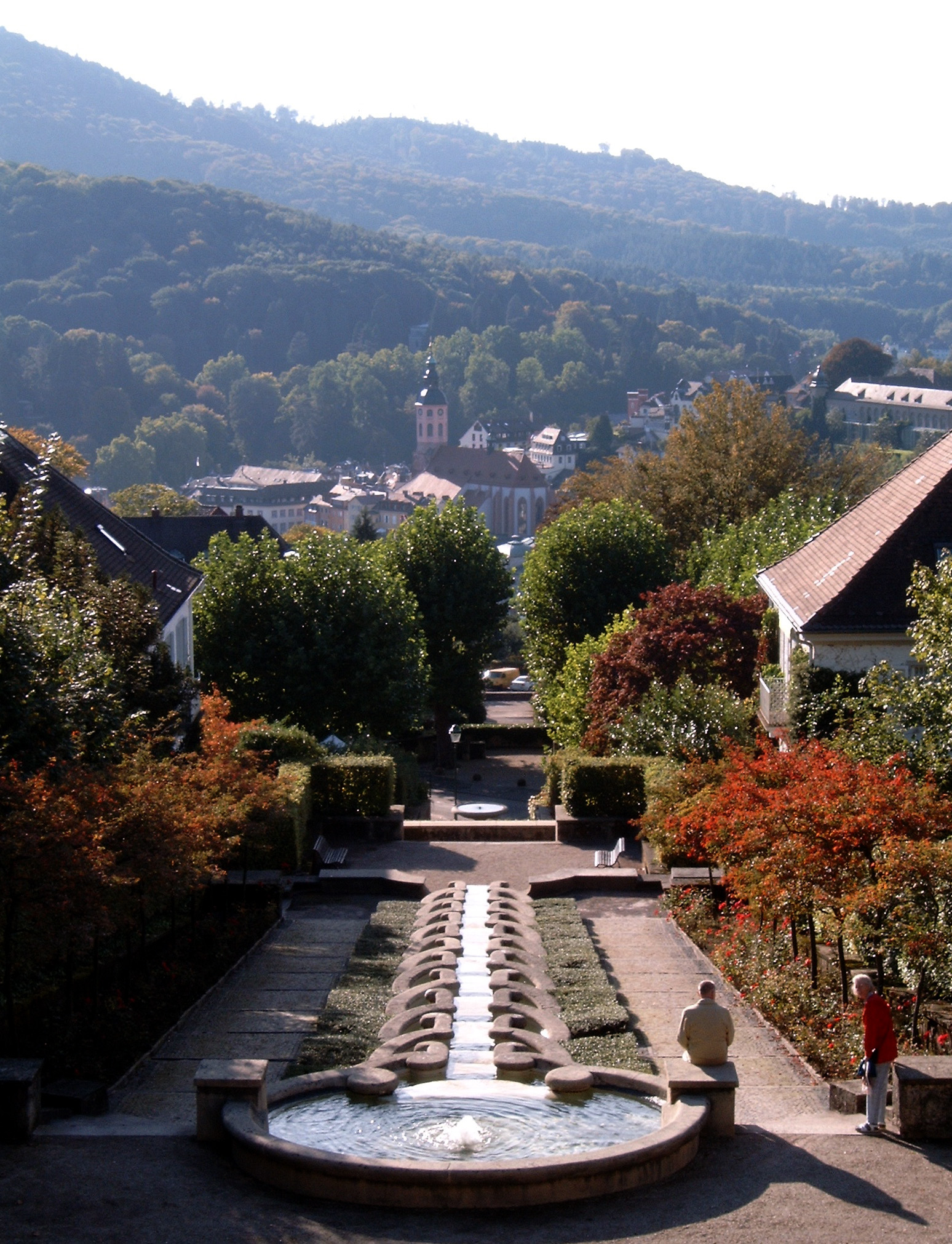 Paradies in Baden-Baden with Stiftskirche in the background